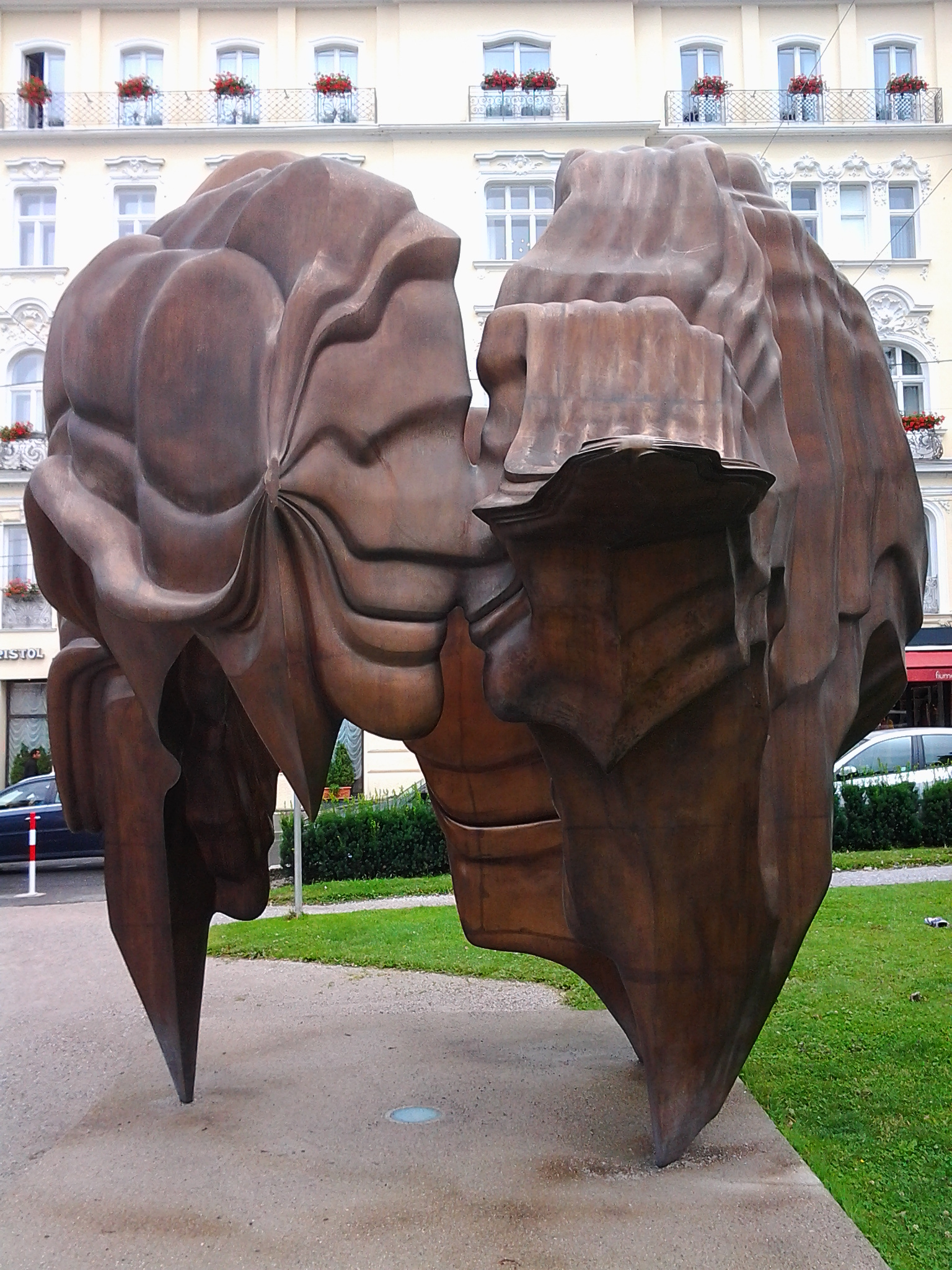 Sculpture "Caldera" by Anthony Cragg, 2008 (Makartplatz, city of Salzburg, Austria).